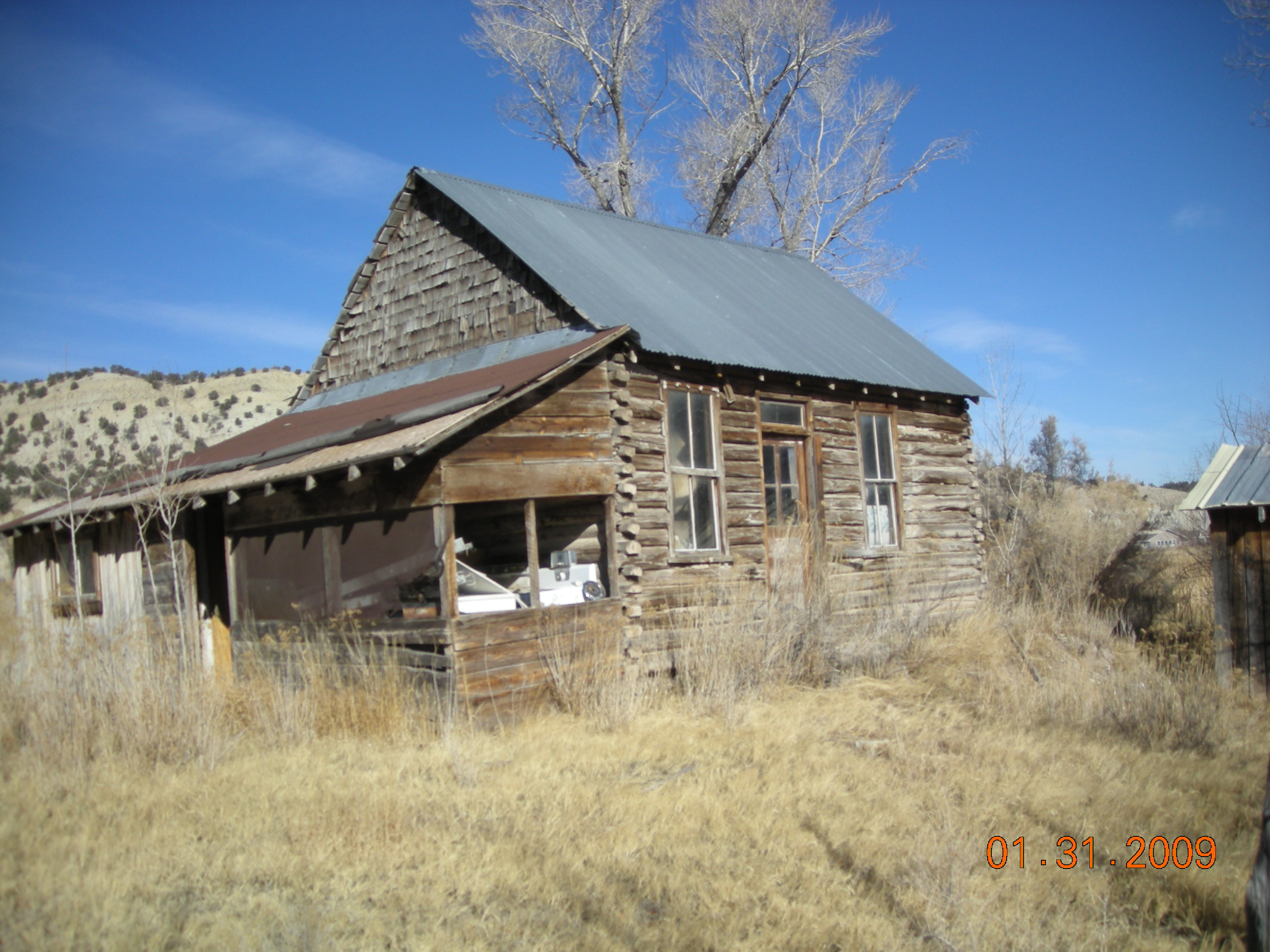 This is the old Strawberry No.2/ Riverside School located in Strawberry, Utah, ten miles west of Duchesne, Utah. The original 20' x 30' structure was built in 1912.